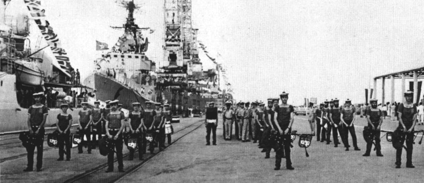 A French Marine Nationale Bagad de Lann-Bihoué bagpipe band during practice at Massawa, Ethiopia. Ethiopia celebrated the graduation of its naval cadets during a four-day international naval pageant called "Imperial Ethiopian Navy Days". Maritime powers and other nations, at the invitation of the world’s senior head of state, His Imperial Majesty Haile Selassie I, send representatives to the port city of Massawa to attend the affair. In 1973 year, countries represented were: the United States, Great Britain, France, the Soviet Union, Iran, India, Sudan, The Netherlands, West Germany, Norway, and Italy. The first eight nations were represented by naval commands, among them were the French frigate Protet (F748), the Soviet destroyer Skrytnyy (447), and the Indian light cruiser Mysore (C60), visible at left. Special guest in 1973 was Anne, Princess Royal of the United Kingdom.